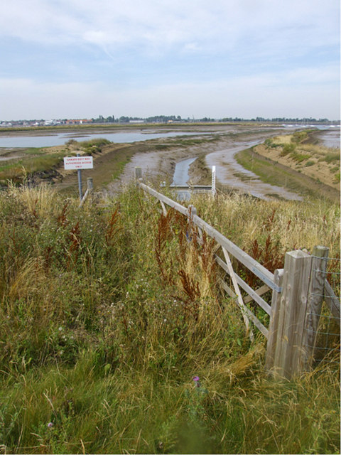 Wallasea Island Wetlands Wallasea Island